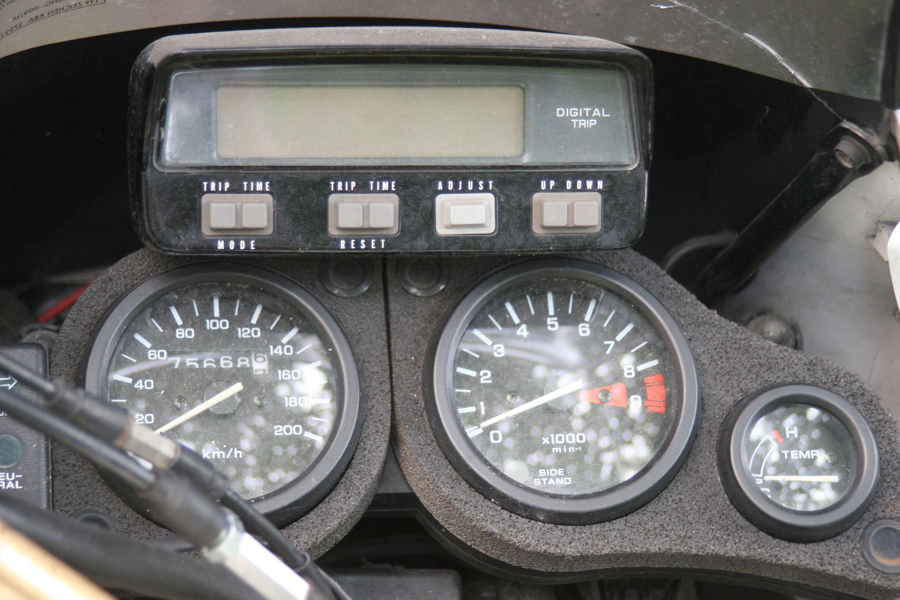 Electronic Speedometer called "Tripmaster" of motorcyle Honda XRV 750 Africa Twin